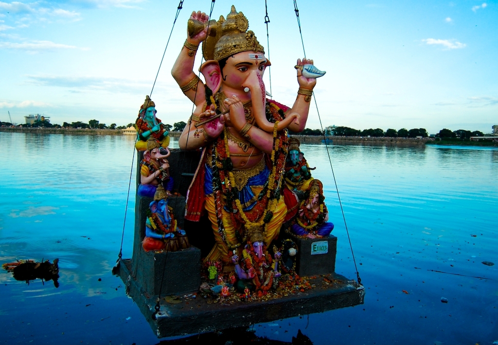 Ganesh festival in India